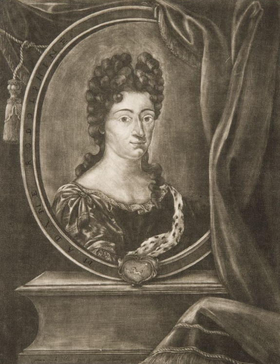 Rosine Elisabeth Menthe (1663–1701), alias Mente, Menthin or Menten, Madame Rudolfine. Morganatic wife of Rudolph Augustus, Duke of Brunswick-Wolfenbüttel.